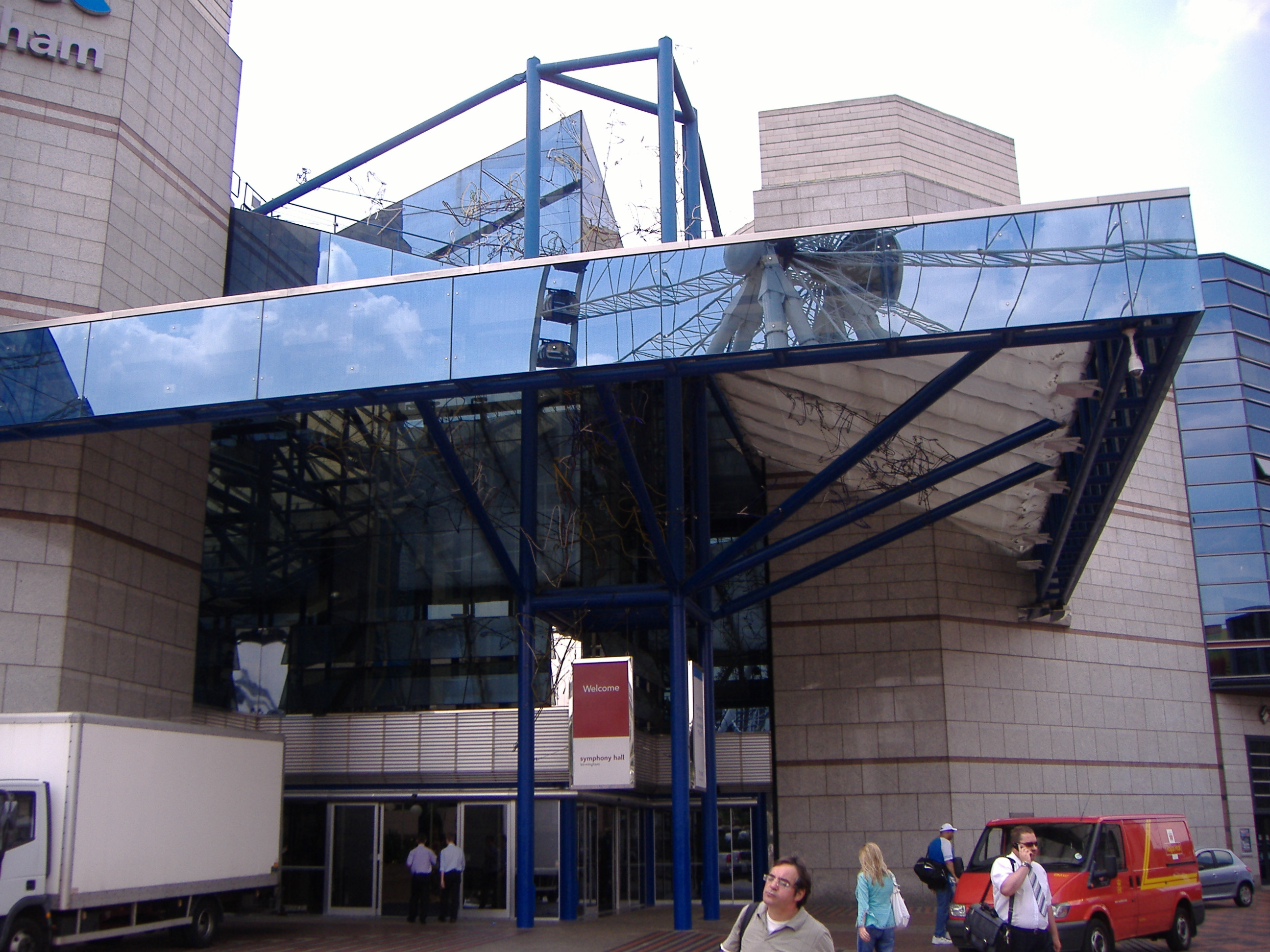 Thhe entrance to the ICC and Symphony Hall Complex in Birmingham, UK.